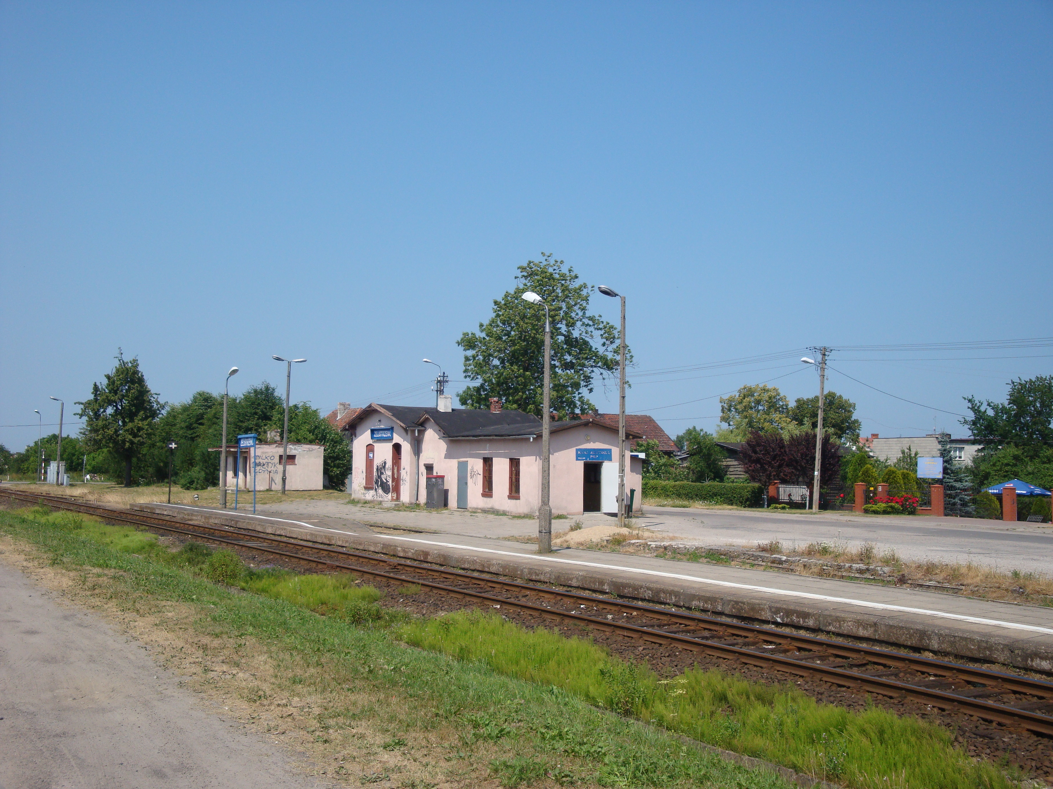 Train station in Żelistrzewo, Gmina Puck, Poland. Line 213